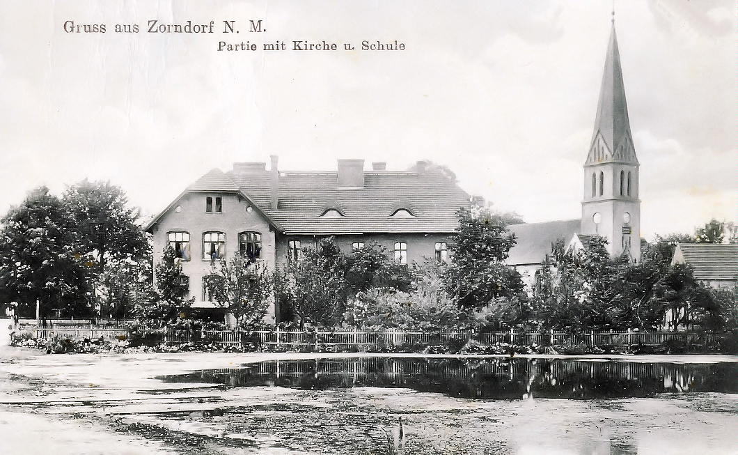 Sarbinowo (Zorndorf) by Kostrzyn (Küstrin), Poland, before Second World War - school and church